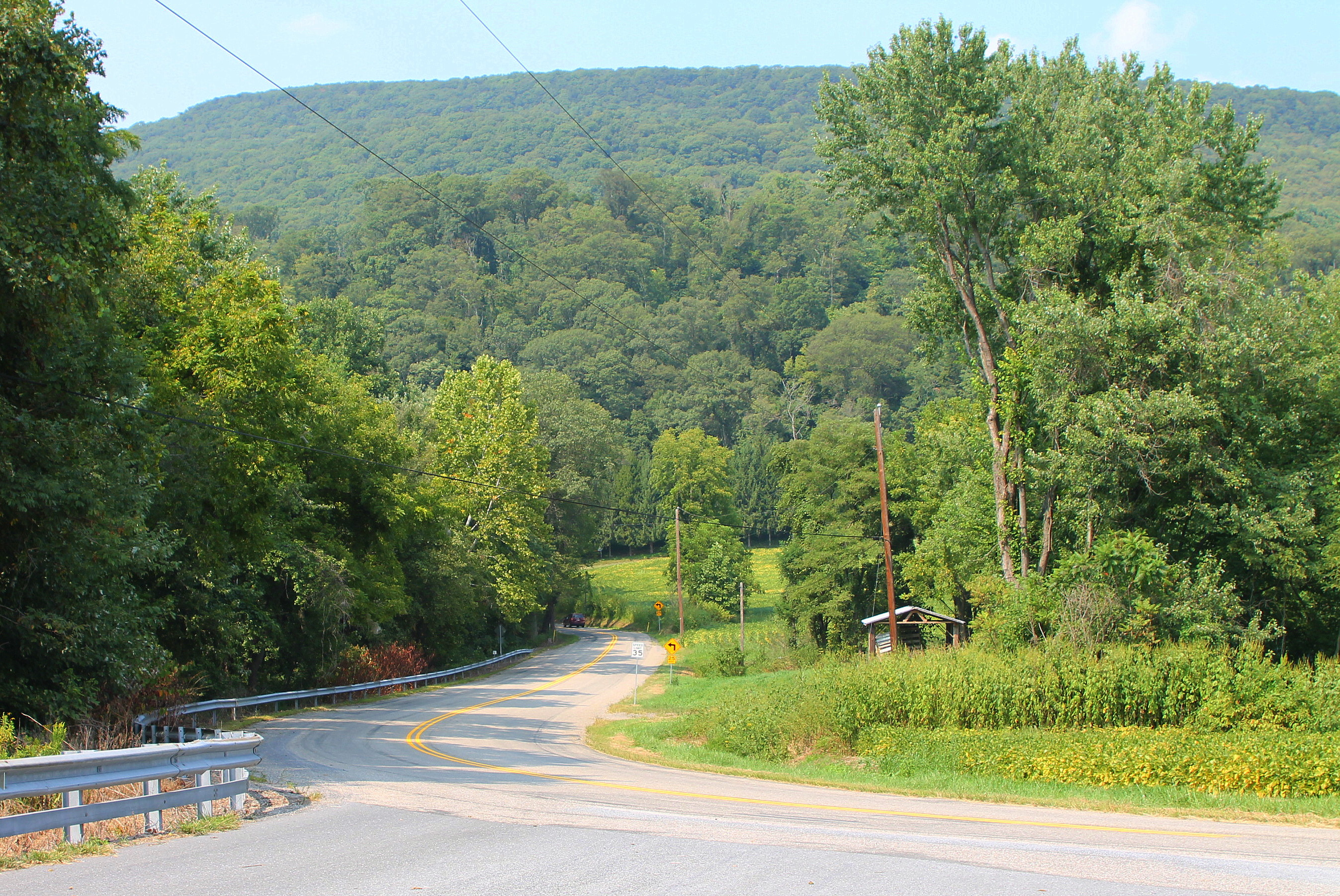 QR 3006 (Herndon Bypass Road), with Little Mountain in the background